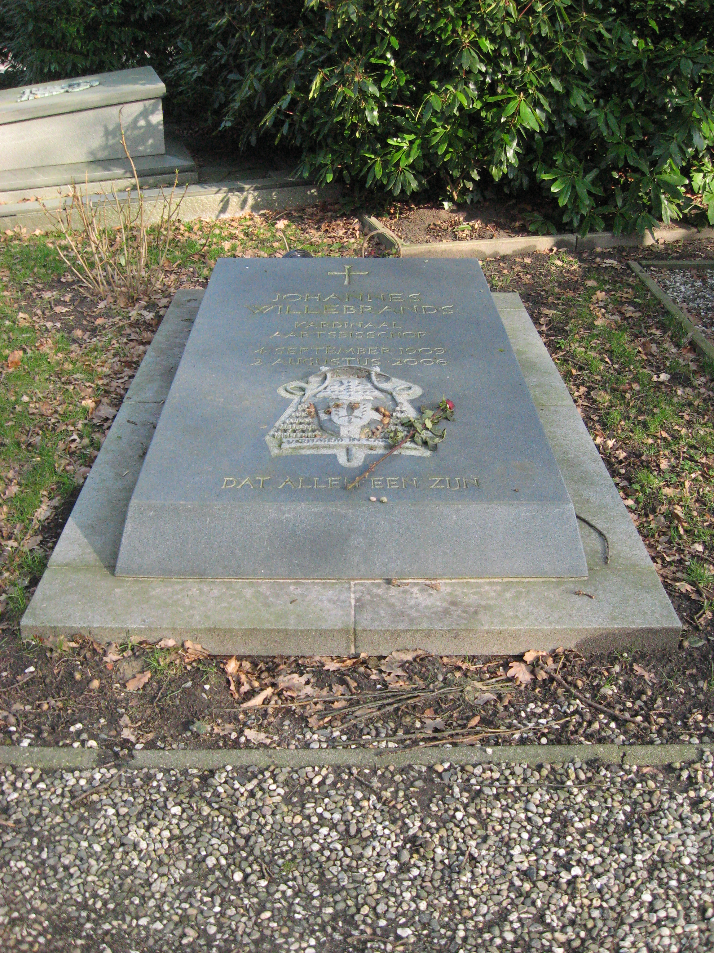 The grave of cardinal Johannes Willebrands, archbishop of Utrecht (1975-1983)